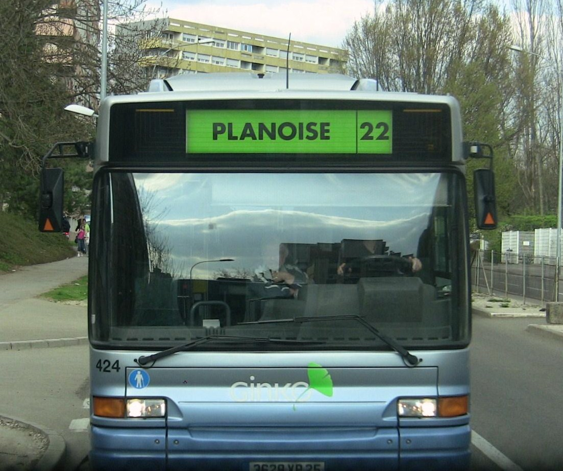 A Ginko company bus, in Besançon (Doubs, France).